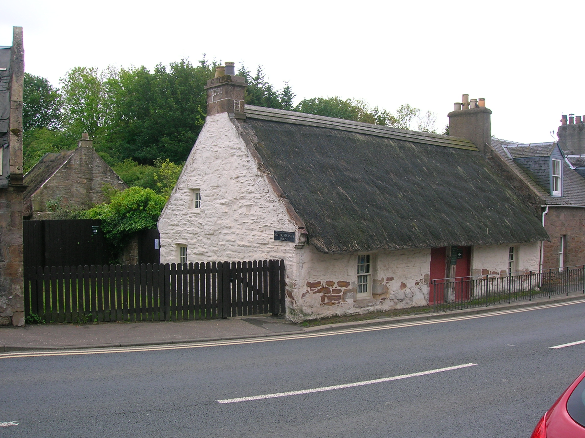 Souter Johhnie's House, Kirkoswald, South Ayrshire, Scotland.